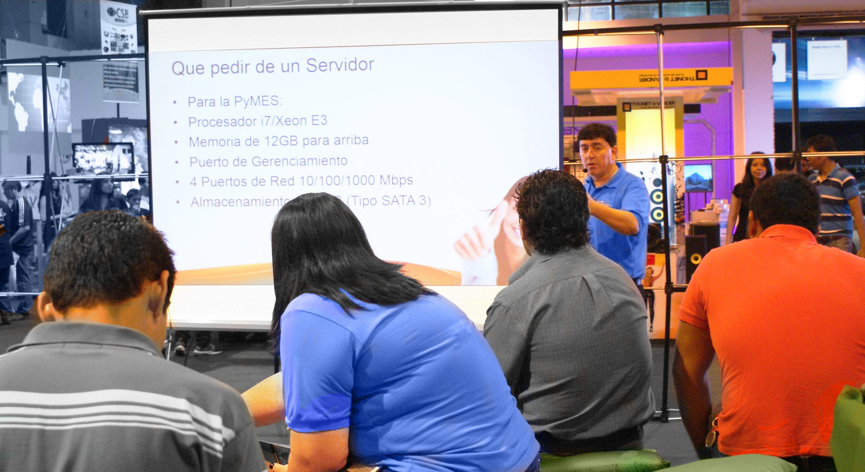 conferencia casual en la Expoteleinfo 2014